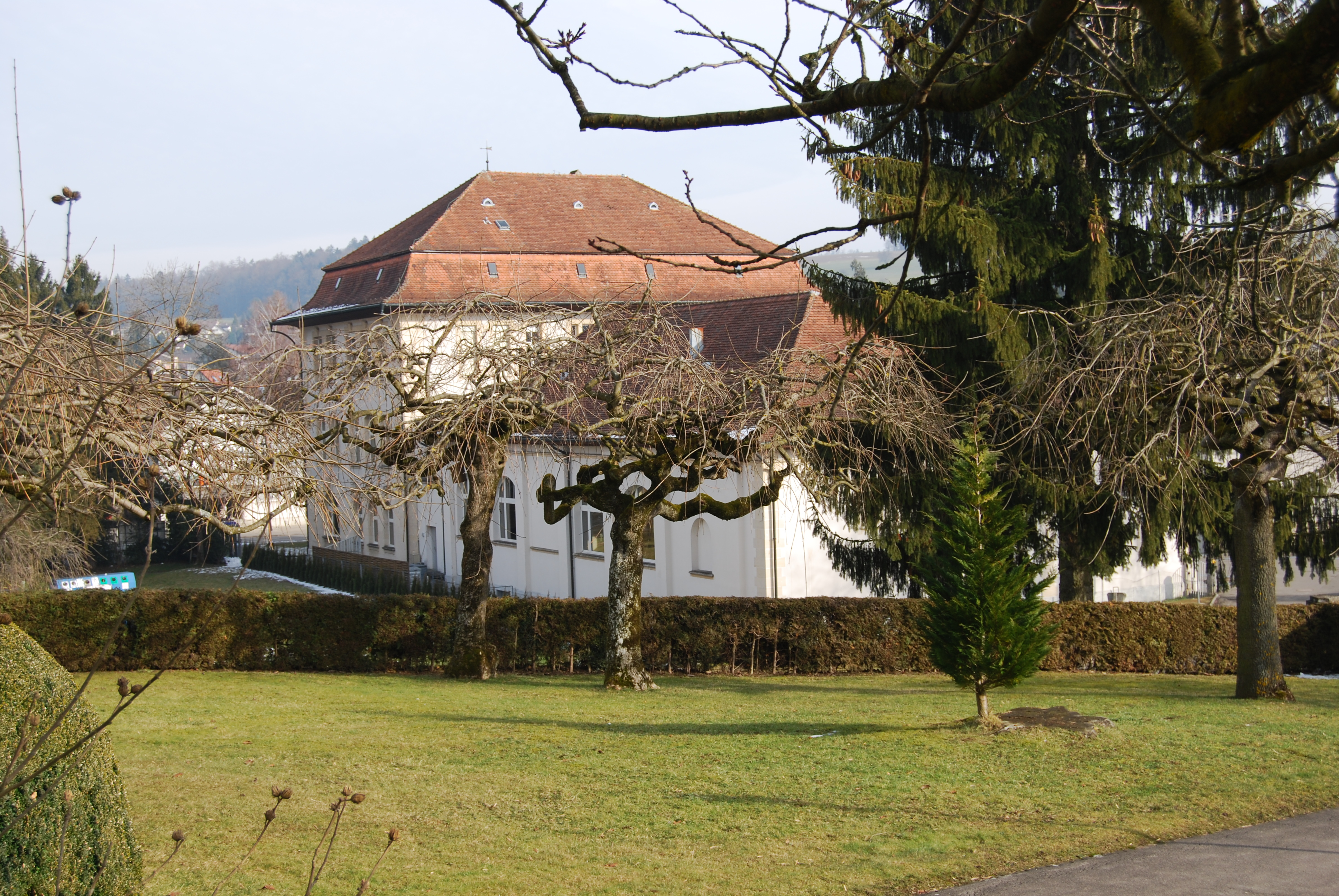 School house at Menziken, canton of Aargau, SwitzerlandEsperanto: Lerneja domo en Menziken, Kantono Argovio, Svislando